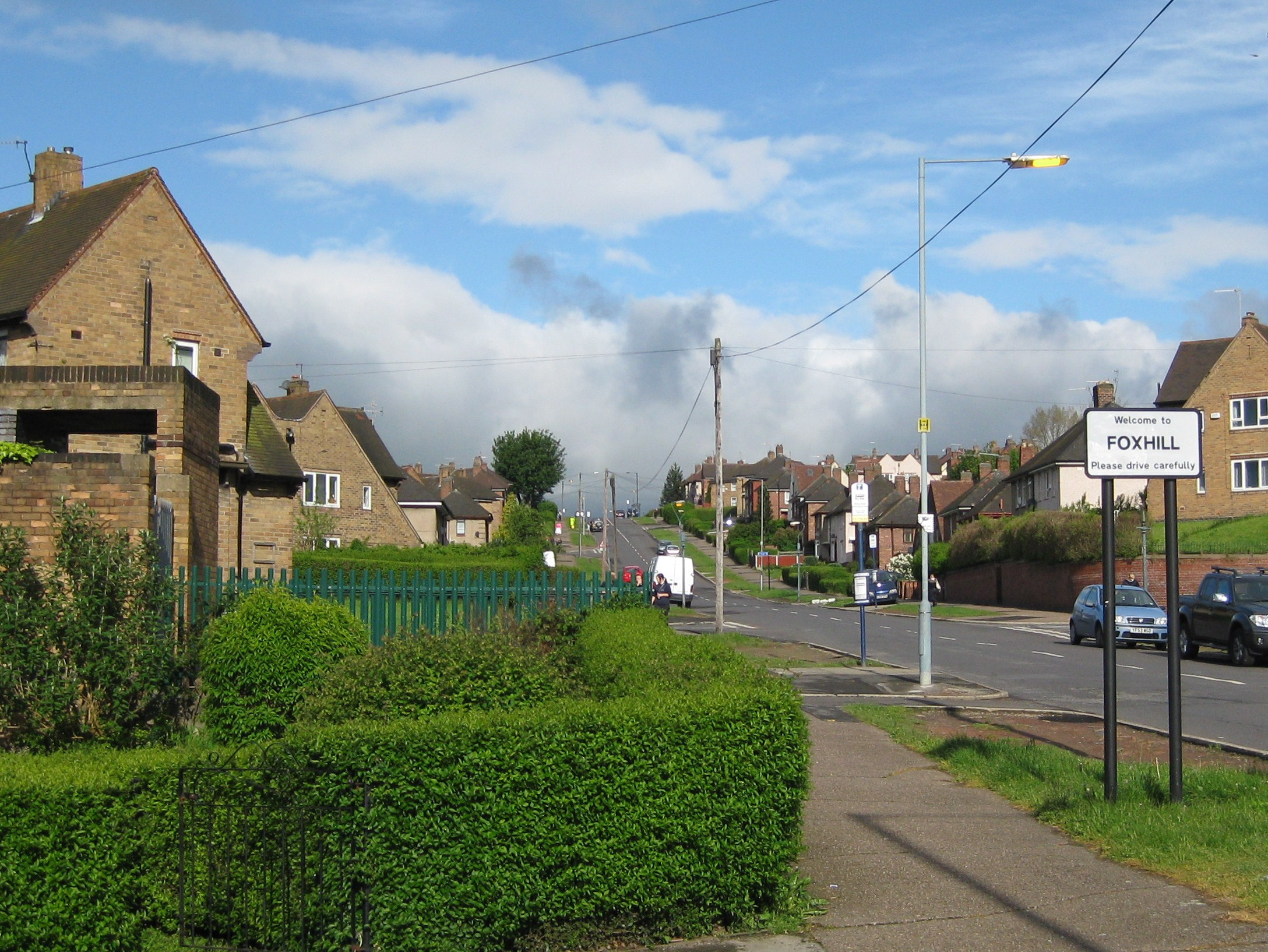 Wilcox Road, Foxhill, Sheffield S6